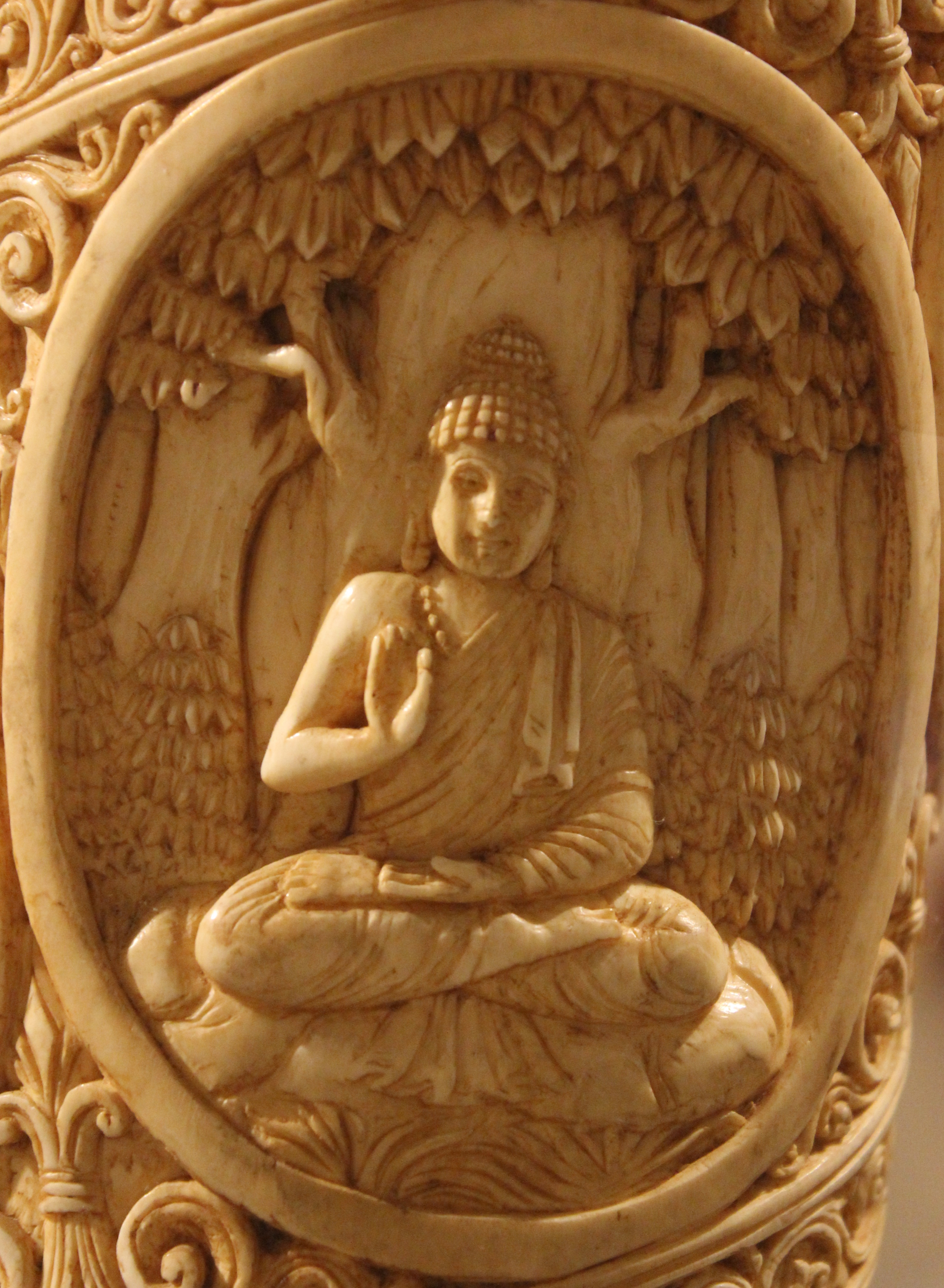 Roundel 3: Lord Buddha seated under a tree in abhaya mudra